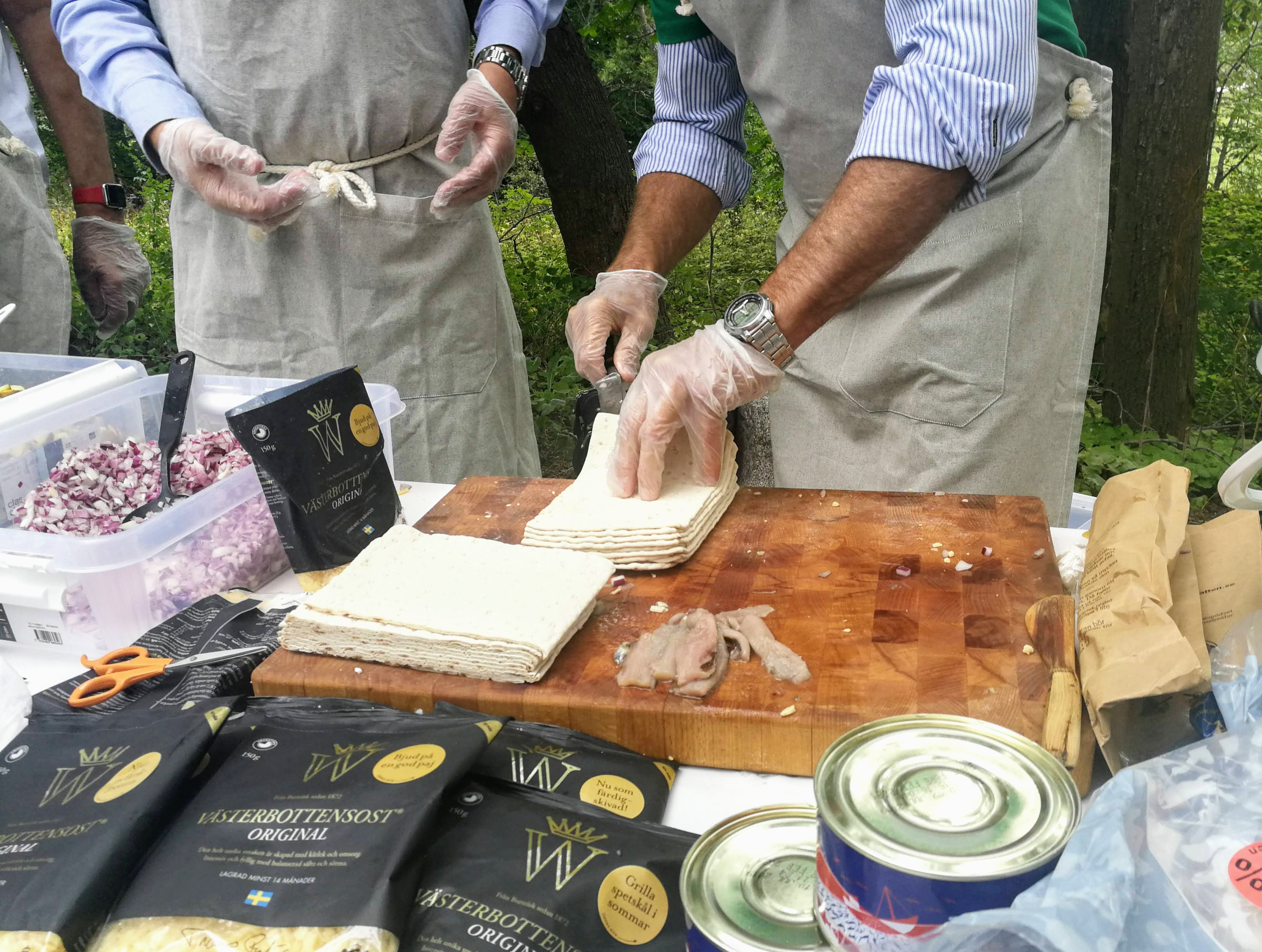 Preparing Surströmming outside Aula Magna at Wikimania 2019